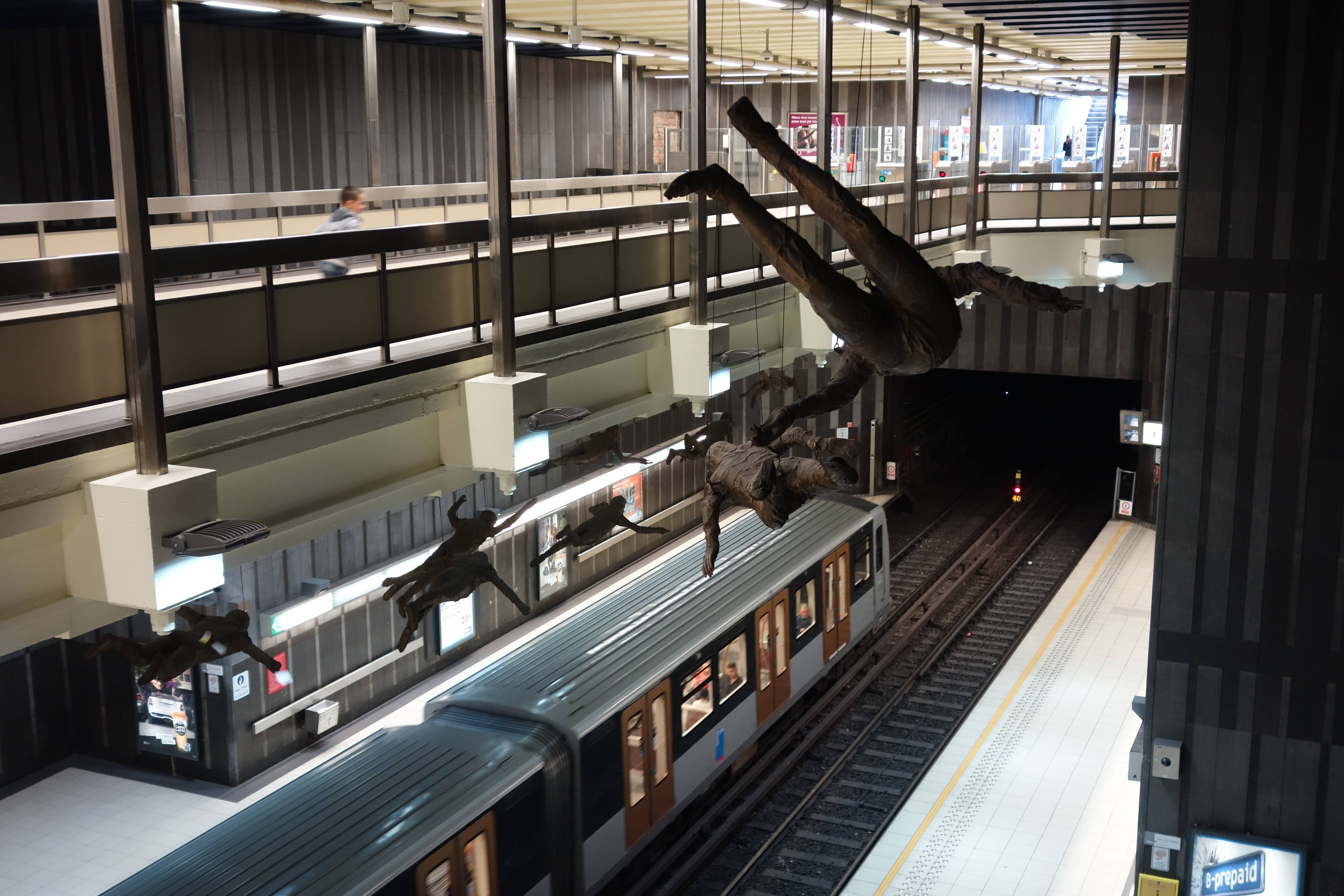 Comte de Flandre/Graag van Vlaanderen metro station in Molenbeek Saint Jan, Brussels